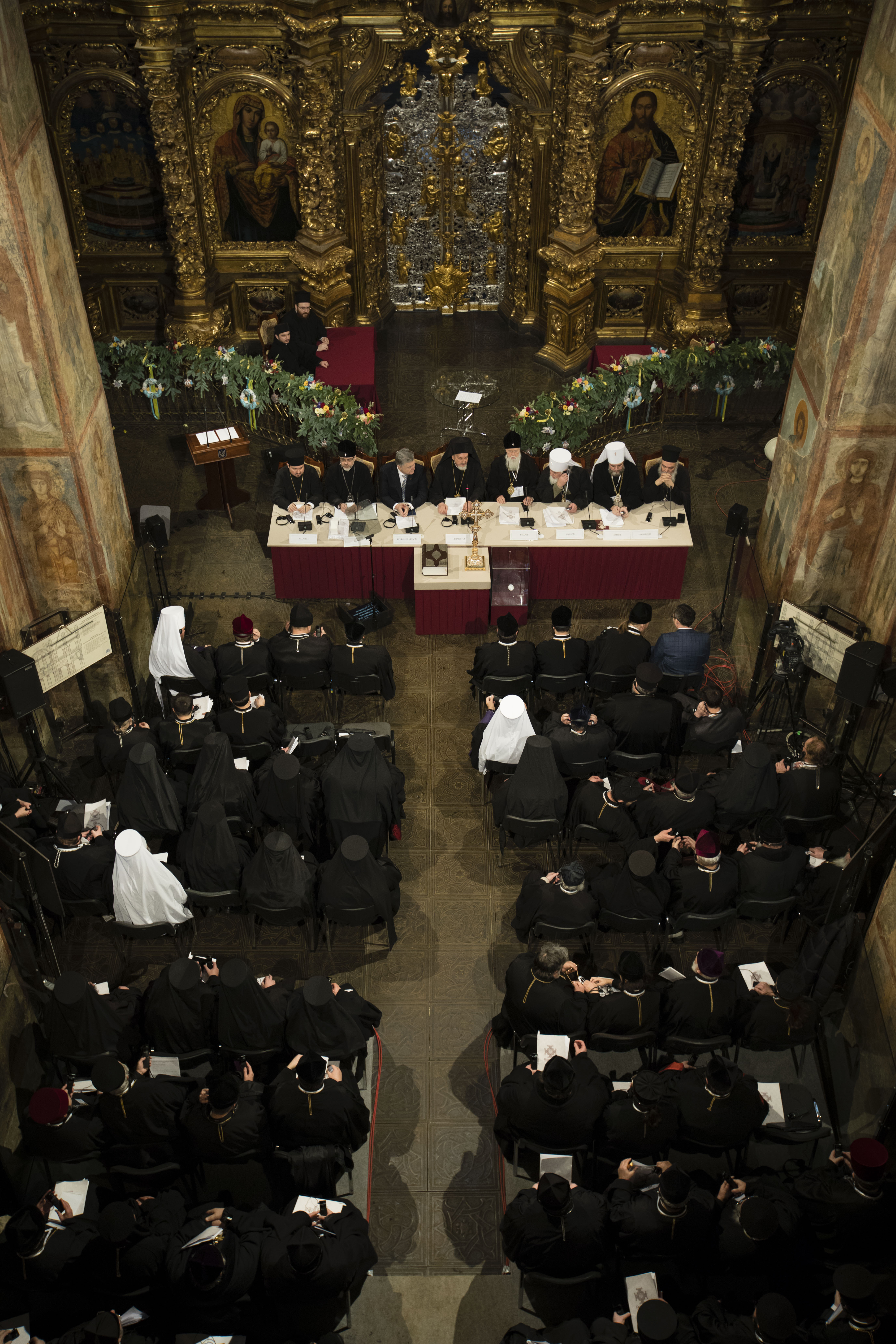 Unification council of Orthodox Church in Ukraine